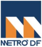 Subway of the Federal District, in Brazil.